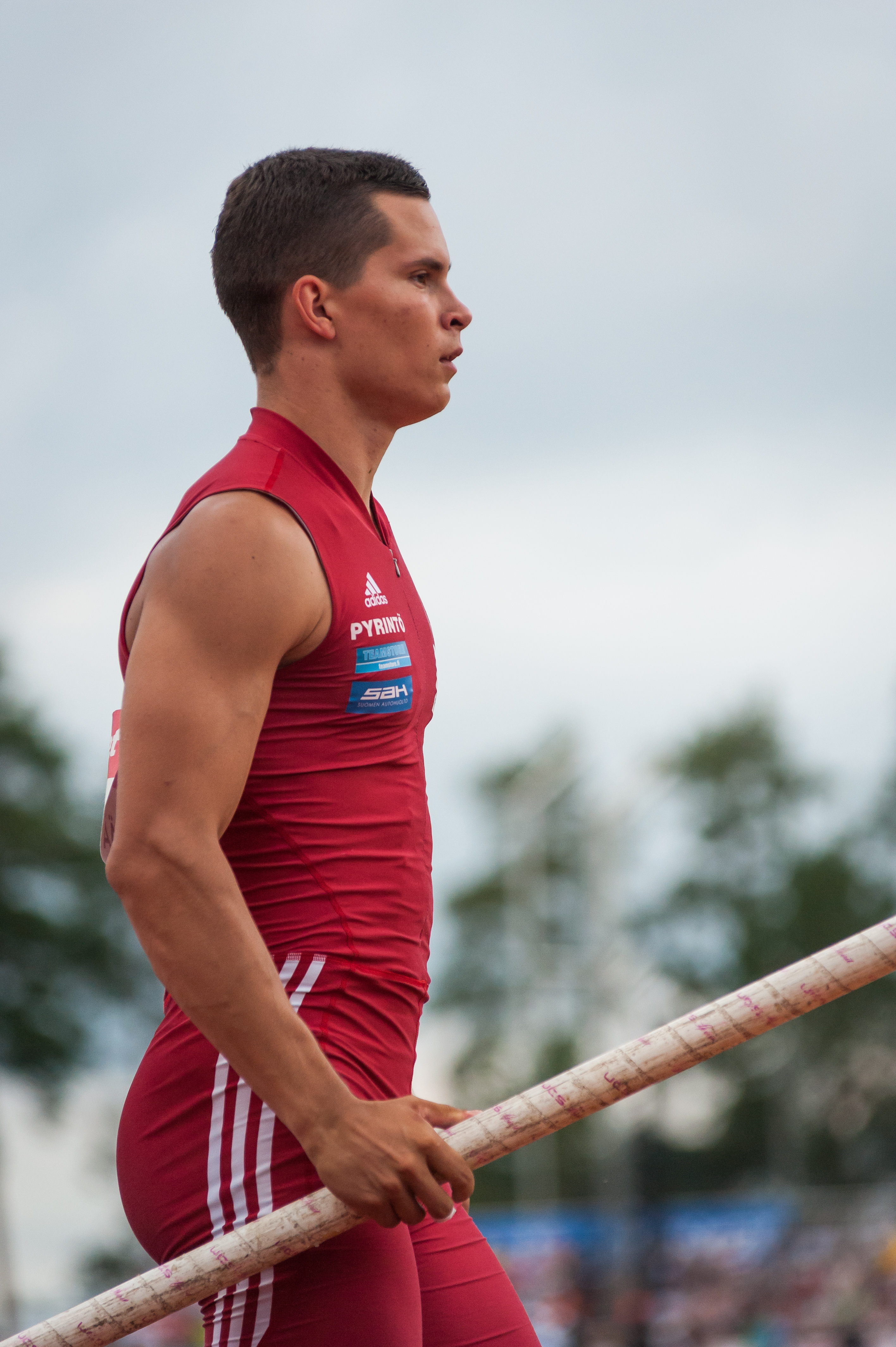 Men's pole vault competition at the 2018 Kalevan Kisat, the Finnish championships in athletics, in Jyväskylä, Finland.